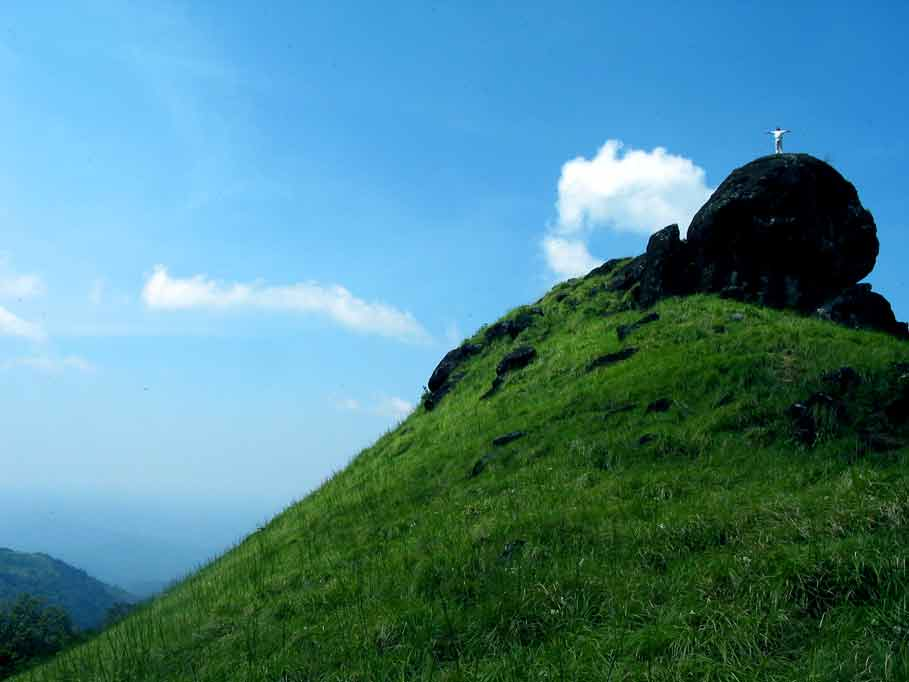 Ranipuram is around 60km from KASARAGOD.Abeautiful destination for nature lovers.